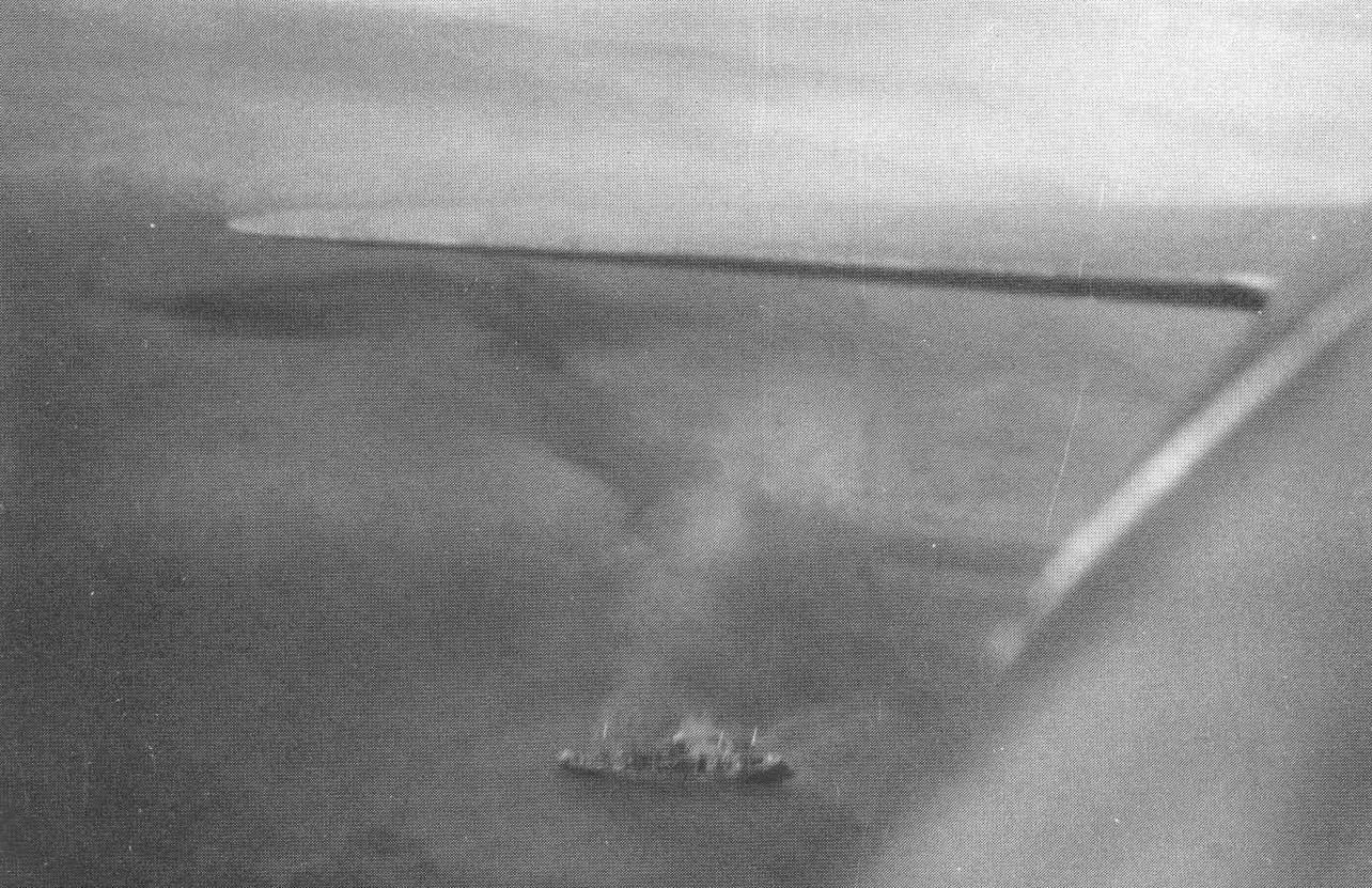 Imperial Japanese Navy armed transport Kongo Maru burns and sinks off of Lae, New Guinea on March 10, 1942 after an air attack by United States Navy SBD Dauntlesses from VS-5 squadron from the carrier Yorktown.